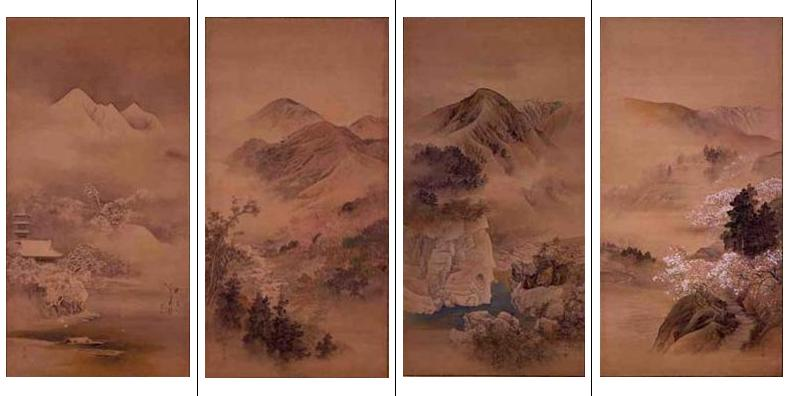 Kawabata Gyokusho. Landscapes of the four seasons. colour on silk, 1899.